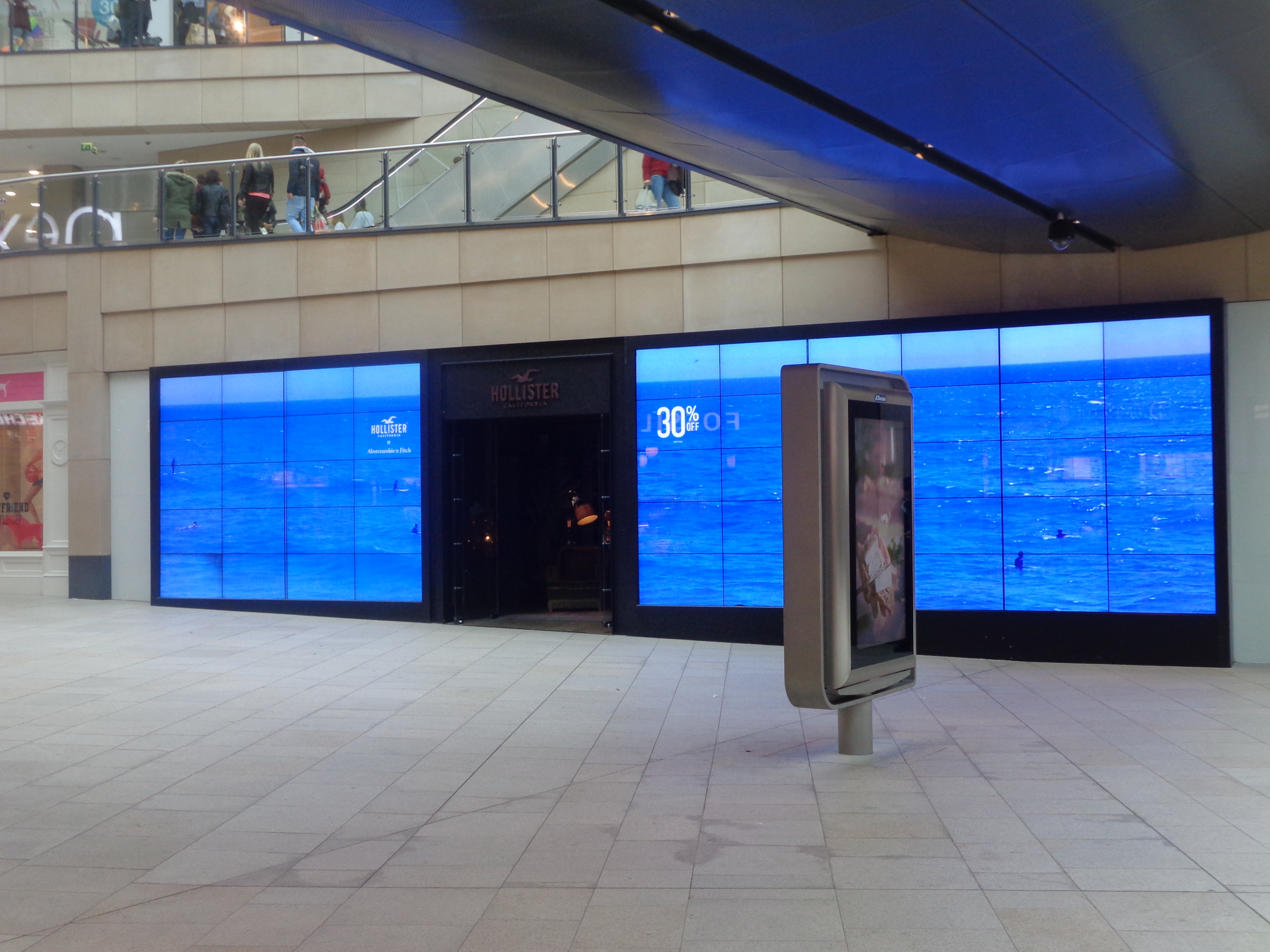 Hollister, Trinity Leeds, Leeds, West Yorkshire. Taken on the afternoon of Saturday the 12th of April 2014.